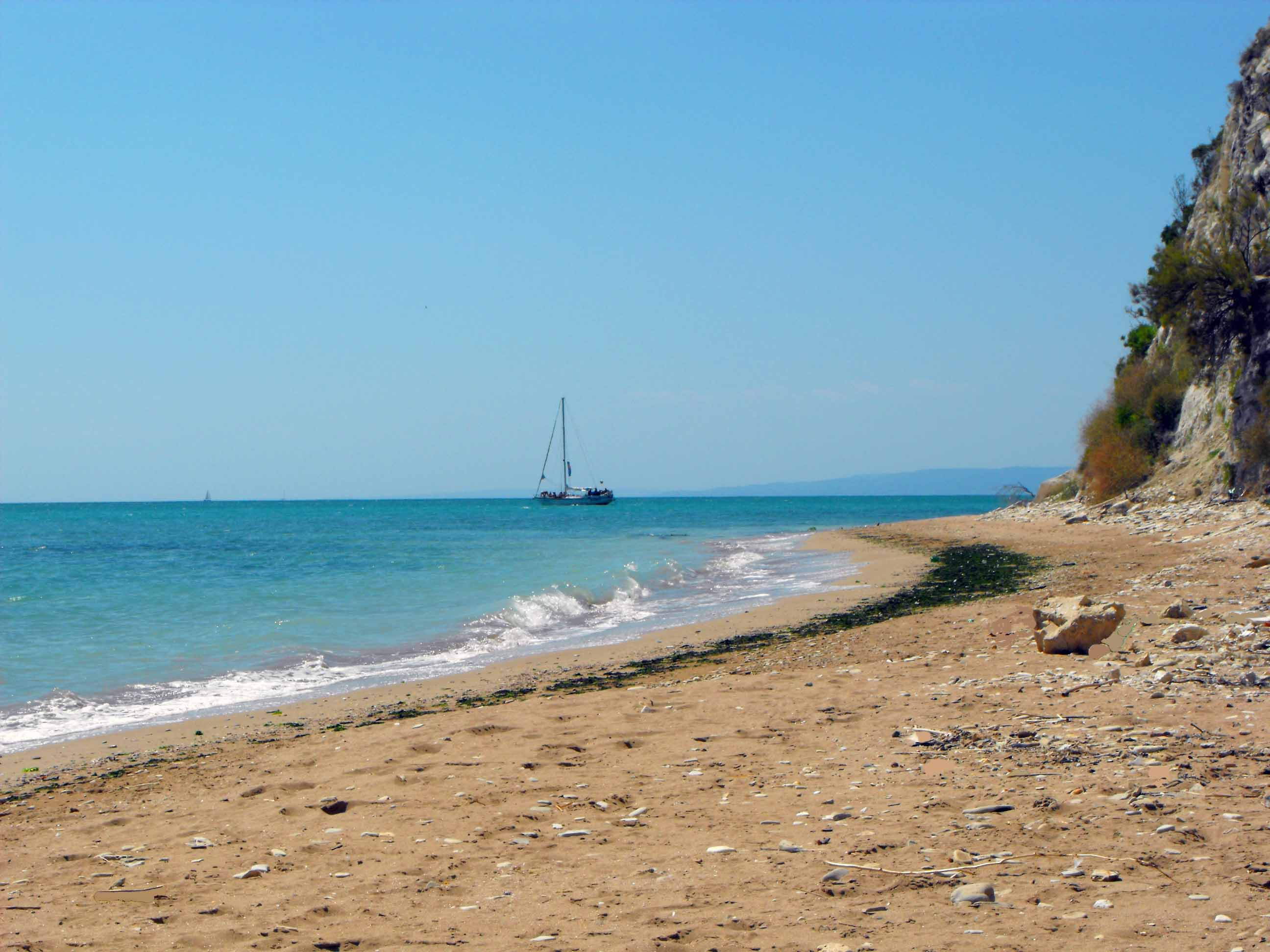 Kompleks Kaliakra: Site of Community Importance BG0000573